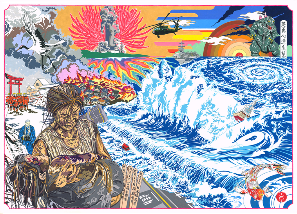 "Harbinger of late winter day's dusk," gouache on paper, 30"x41", 2012. Image courtesy of the artist.